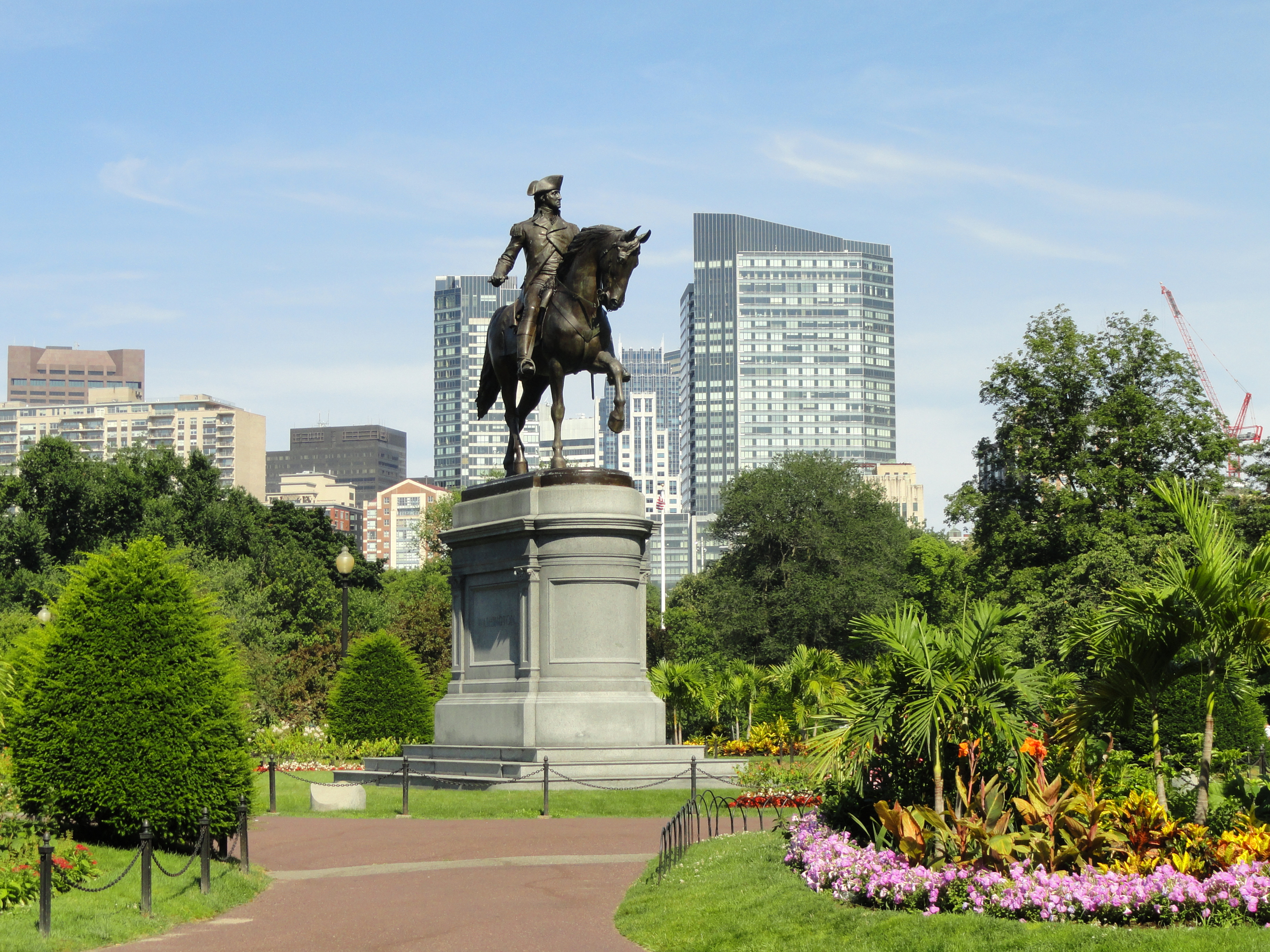 Boston Public Garden, Boston, Massachusetts, USA.